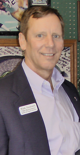 Mark Neumann